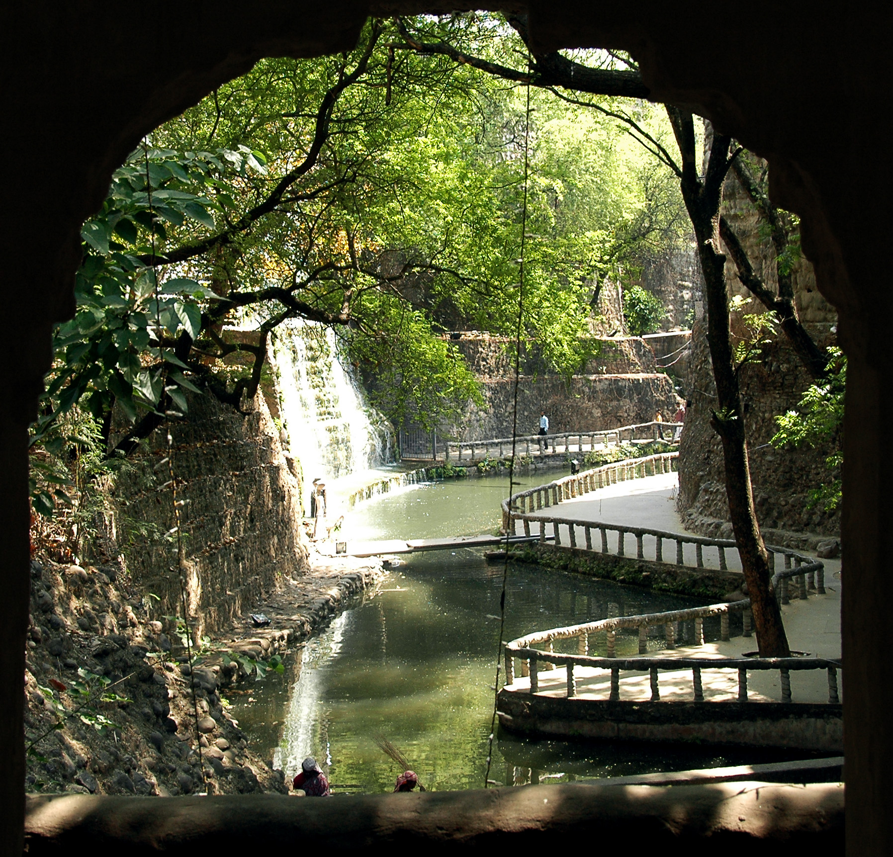 Waterfall at Rock Garden, Chandigarh.